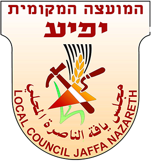 Local Council of Yafi'a, Yafa an-Naseriyye coat of arms